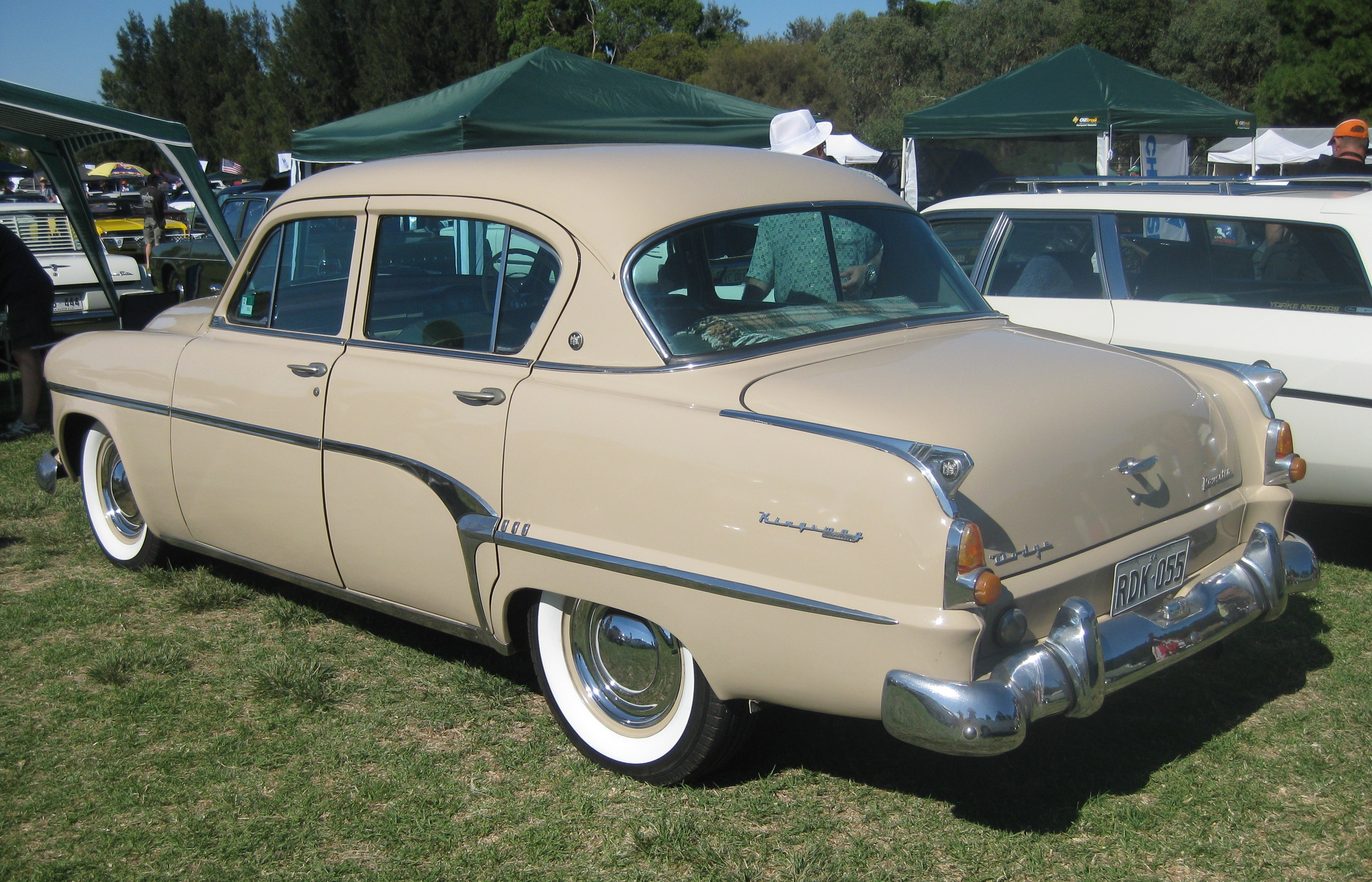 1955 Dodge Kingsway Coronet (D49 series) (Chrysler Australia - 1955)